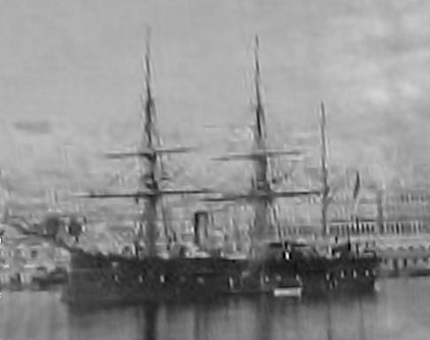 Photograph of the French ironclad Atalante